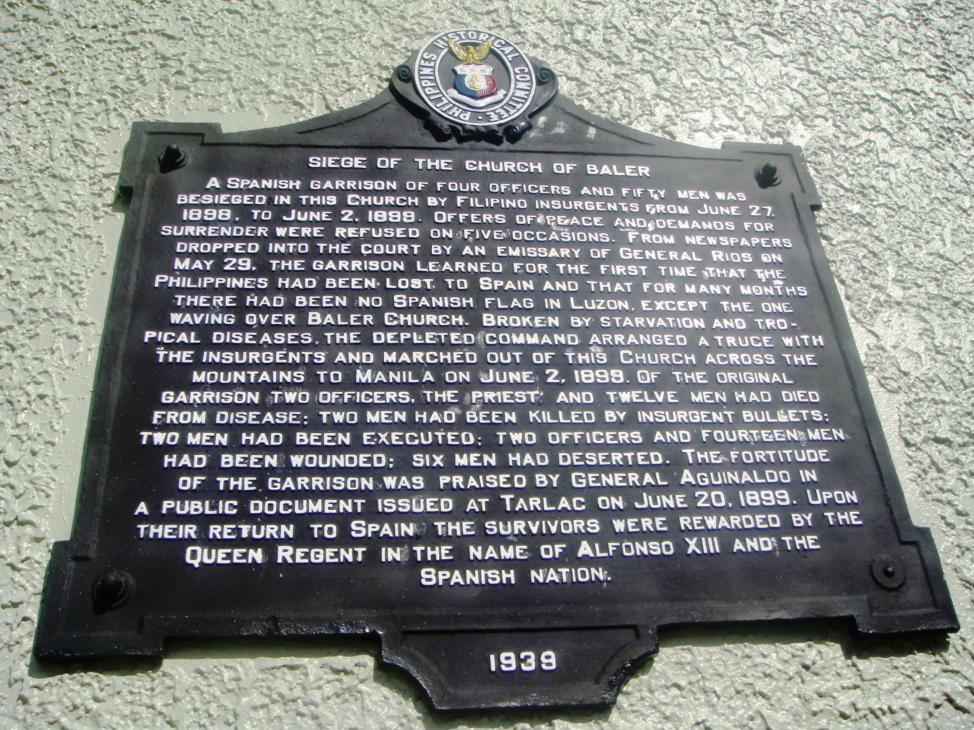 1939 “The Siege of the Church of Baler” Historic Marker - 1611, Baler Church – (San Luis Obispo de Tolosa church famous for the Siege of Baler in 1898–1899 between the Philippine Revolutionary forces and Spanish troops during the Philippine Revolution and Spanish-American War)[1].